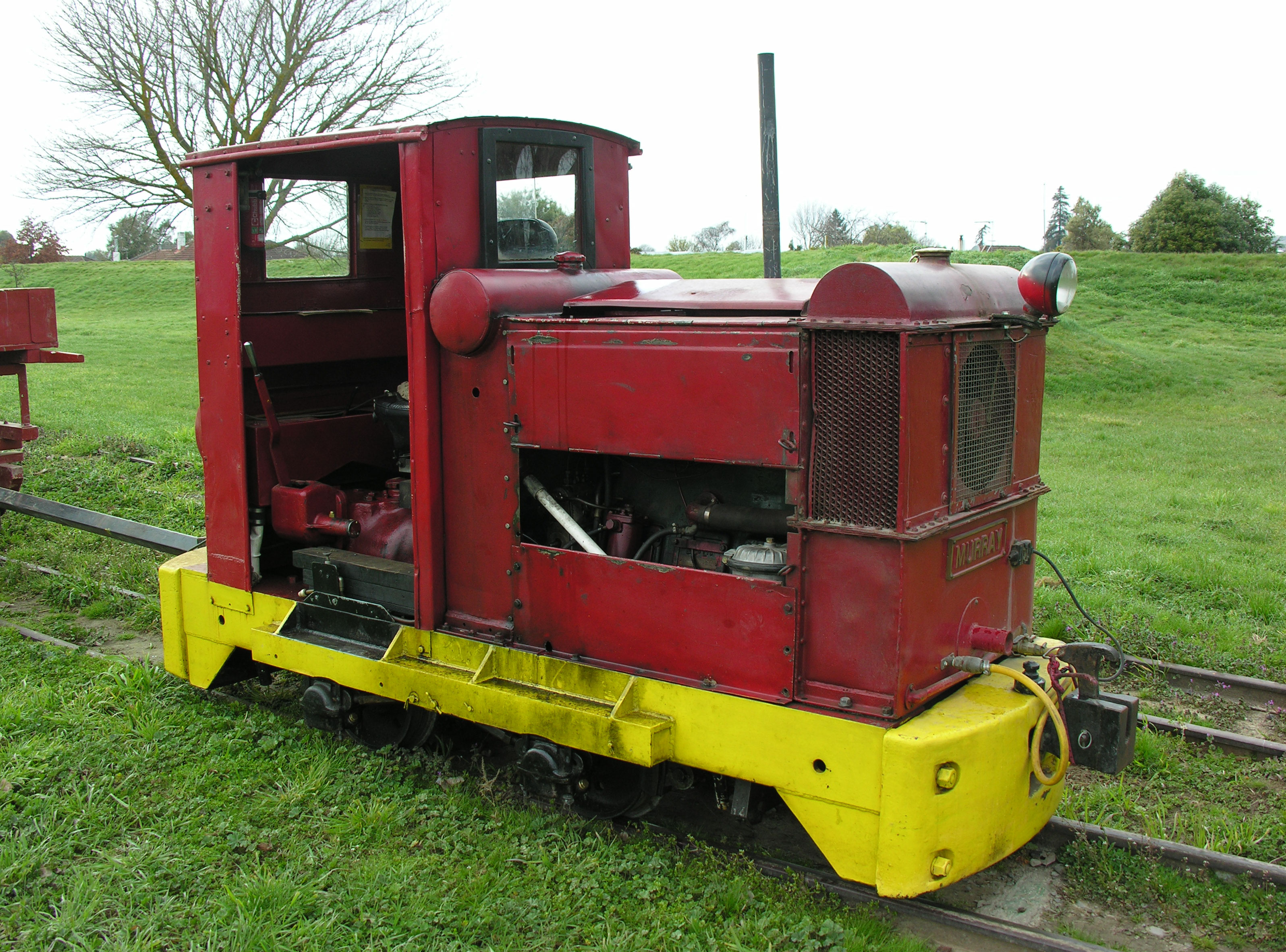 The Blenheim Riverside Railway's Murray loco, a Ruston & Hornsby (serial no 170204). Parked at the mainline of Chinamans Creek Crossing.